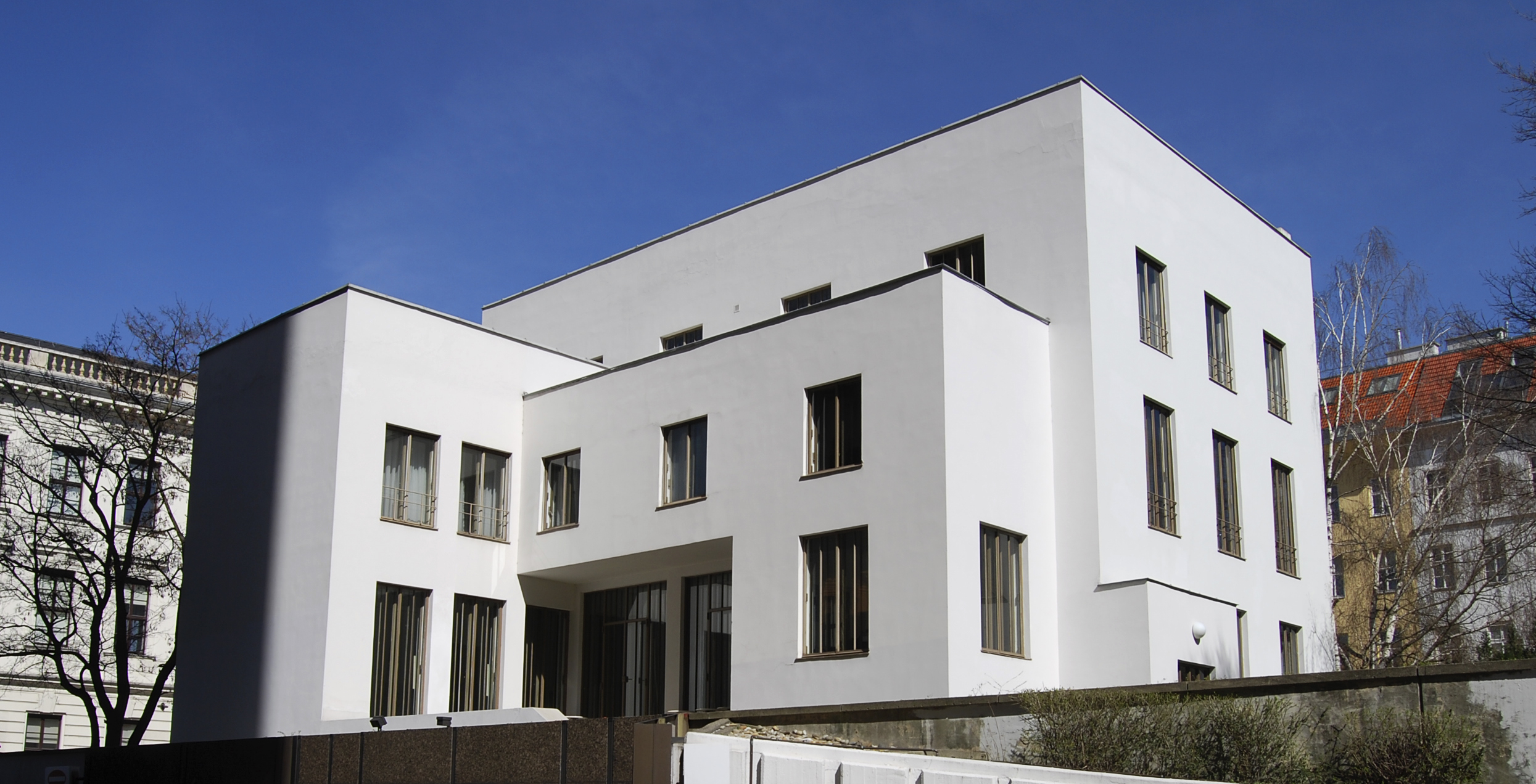 Wohnhaus, Haus Stonborough-Wittgenstein